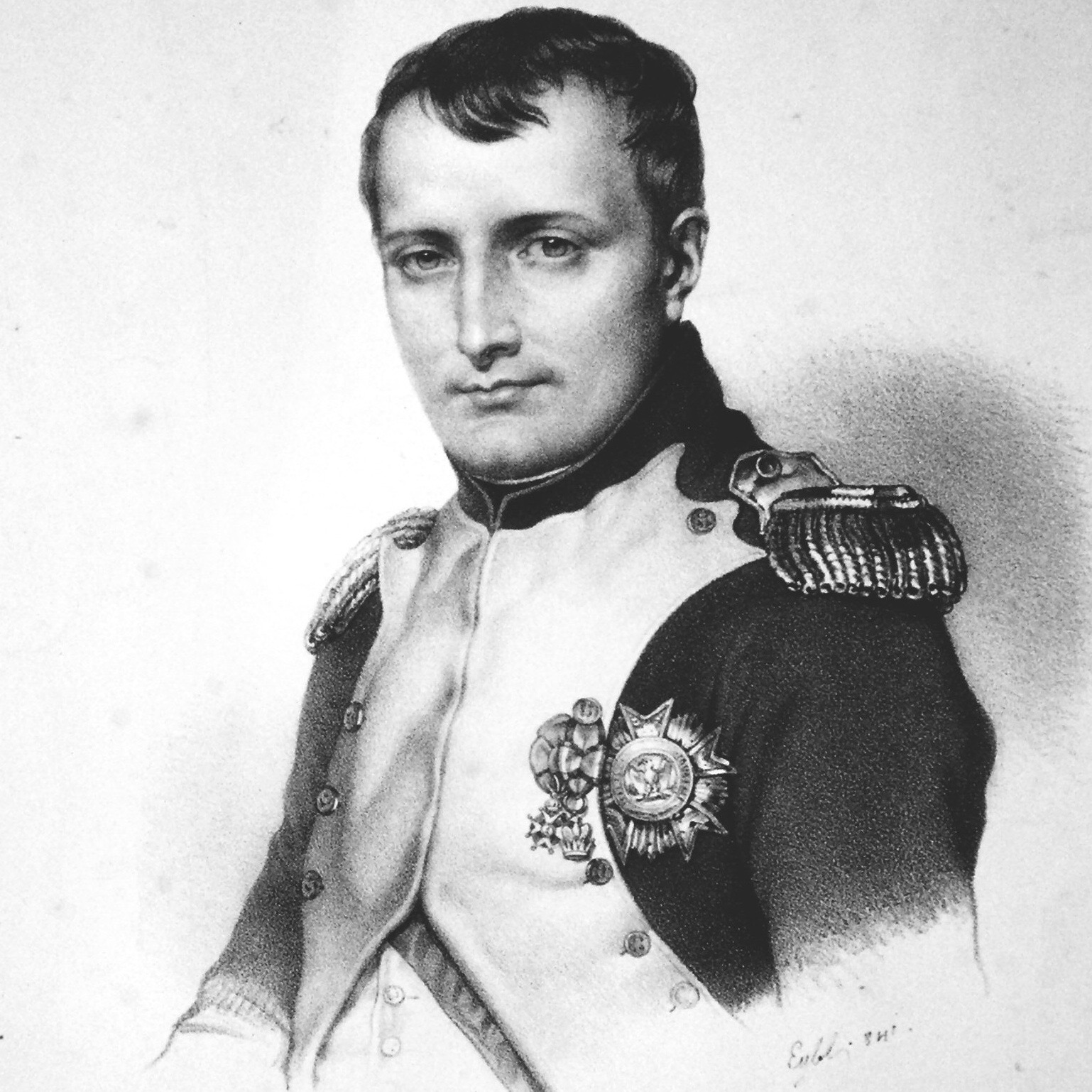 Lithograph of Napoleon Bonaparte by Franz Eybl.